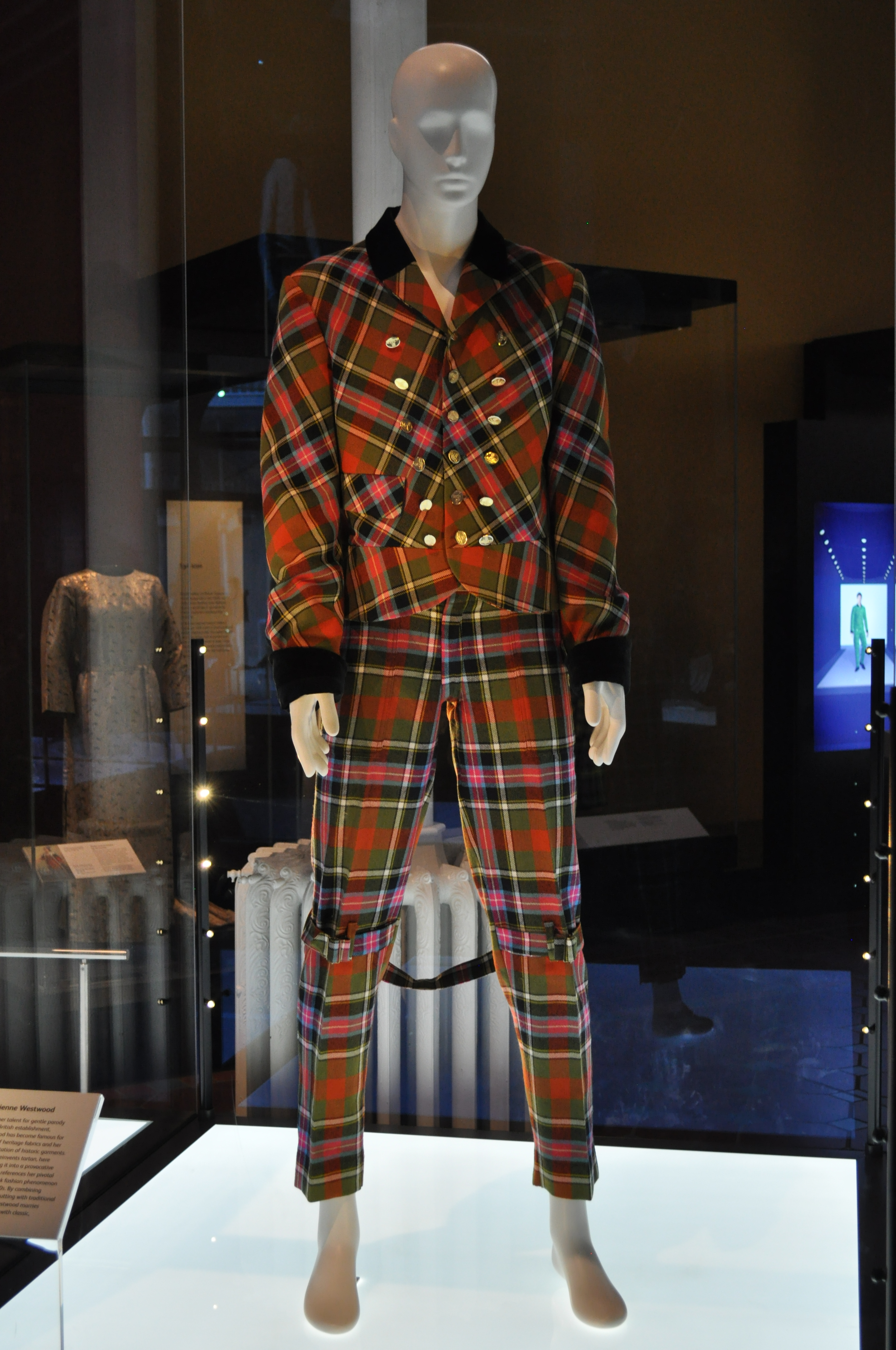 Harris Tweed Suit, by Vivienne Westwood. For her Machine collection inspired by the novel by HG Wells. Harris Tweed, satin lining, Autumn/Winter 1998/99. Part of the permanent collection of the National Museum of Scotland, Edinburgh